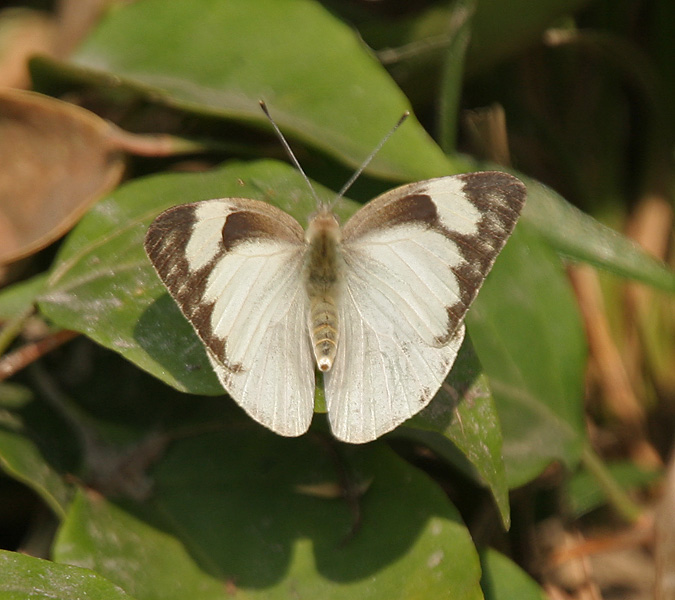 Description corrected as Eastern Striped Albatross Appias olferna in Kolkata, West Bengal, India.